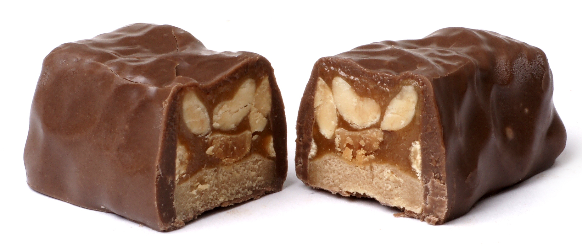 An Oh Henry! candy bar that has been split in half. Oh Henry! is made by Nestle and sold in the US.